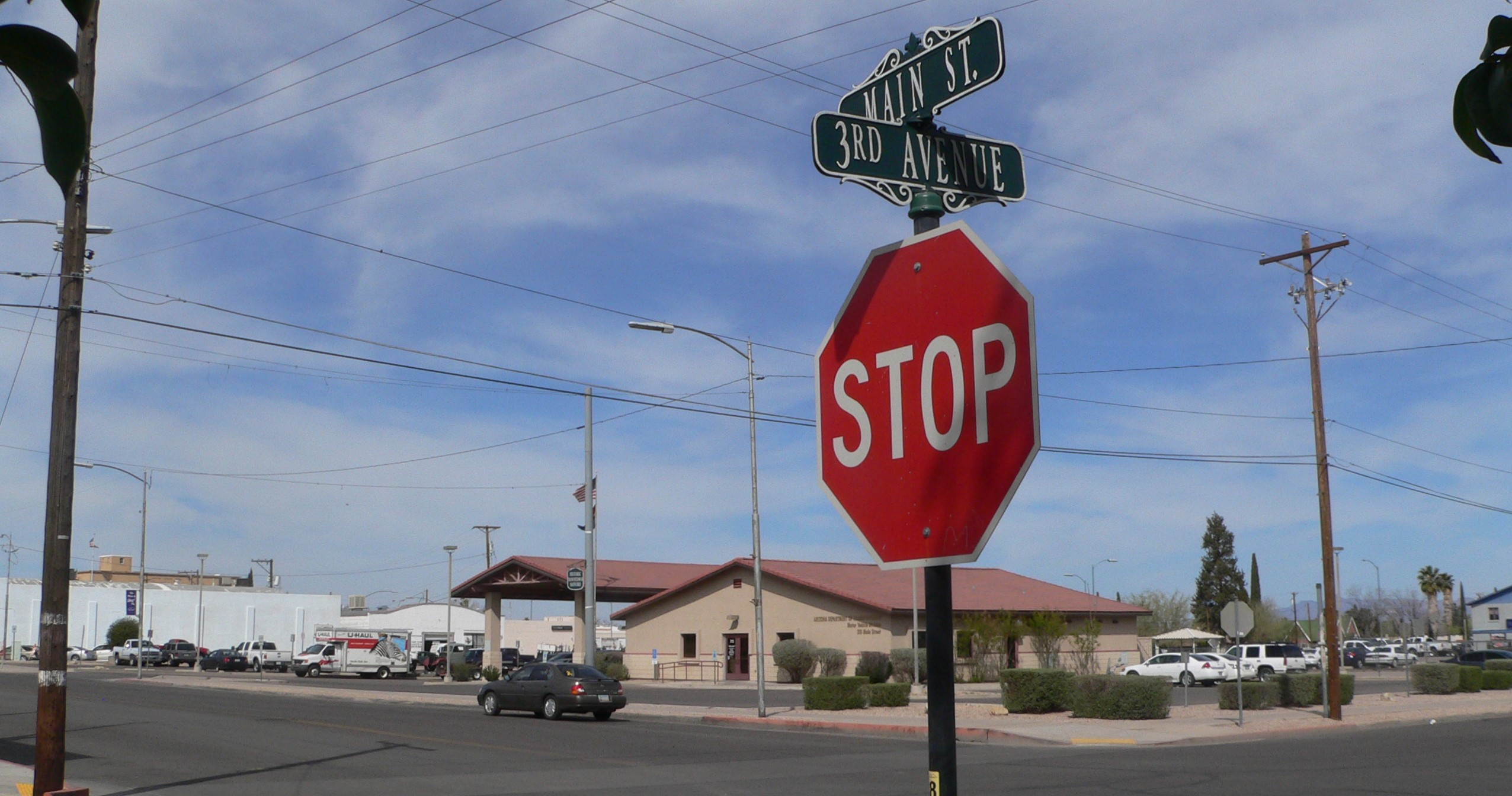 North side of 300s block of Main Street in Safford Arizona; camera is facing northwest. The building behind the stop-sign is the Motor Vehicle Division building at 310 Main Street.